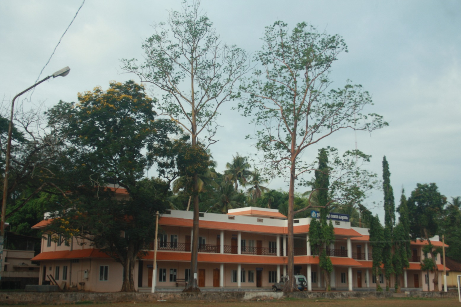 Irinjalakuda Municial Office